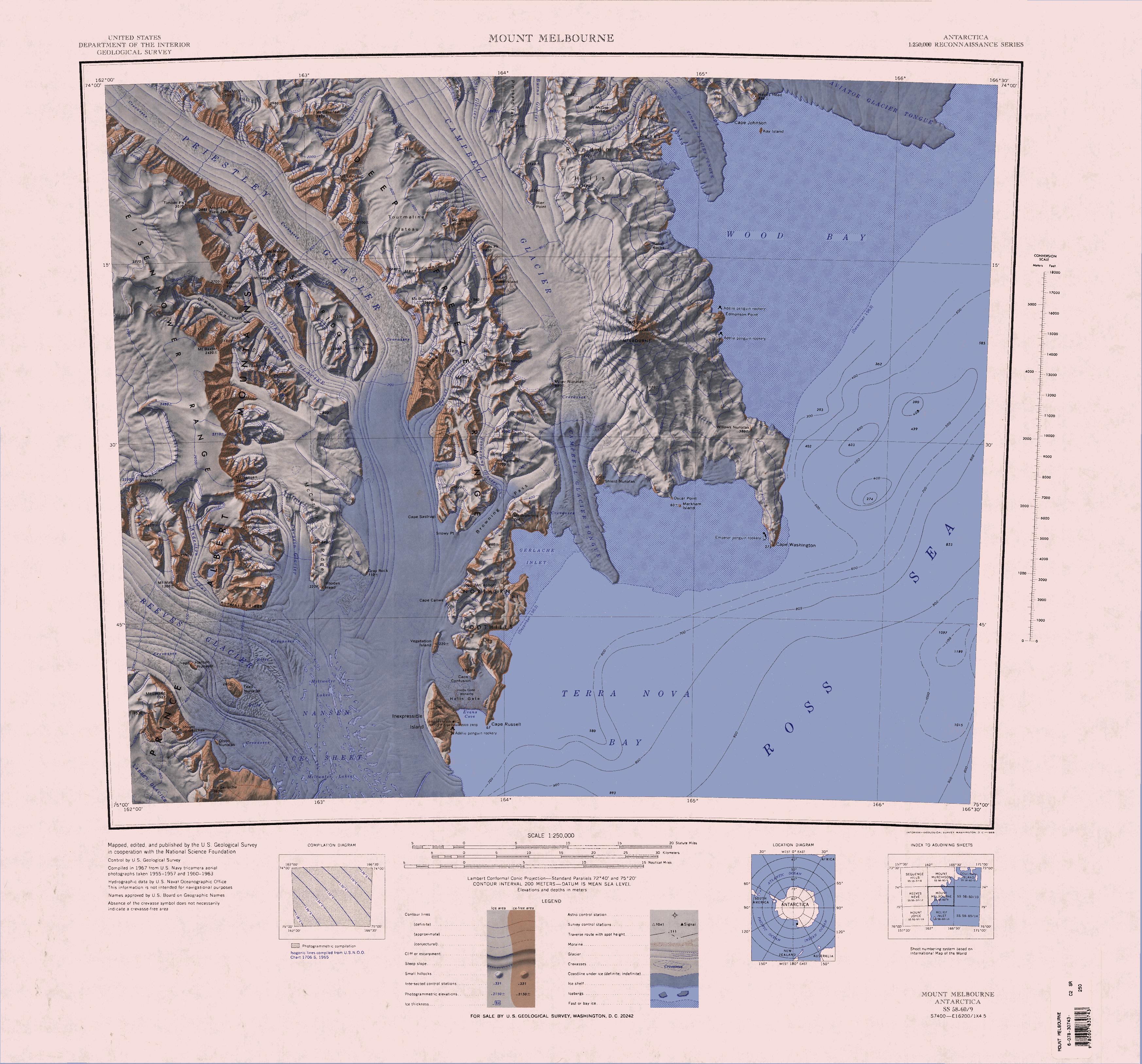 1:250,000-scale topographic reconnaissance map of the Mount Melbourne area from 162°-166°30'E to 74°-75°S in Antarctica. Mapped, edited and published by the U.S. Geological Survey in cooperation with the National Science Foundation.